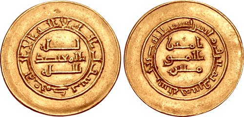 ISLAMIC, 'Abbasid Caliphate. Al-Mu'tadid. AH 279-289 / AD 892-902. AV Dinar (22mm, 2.17 g, 2h). Donative type. Dated AH 285 (AD 892/3). Name of Al-Mu’tadid, la ilah (for Allah) above; Kalima in margin / Amir el-muminin (Commander of the Faithful); AH date in margin. Album 241A. EF, faint earthen deposits in letters. Very rare.